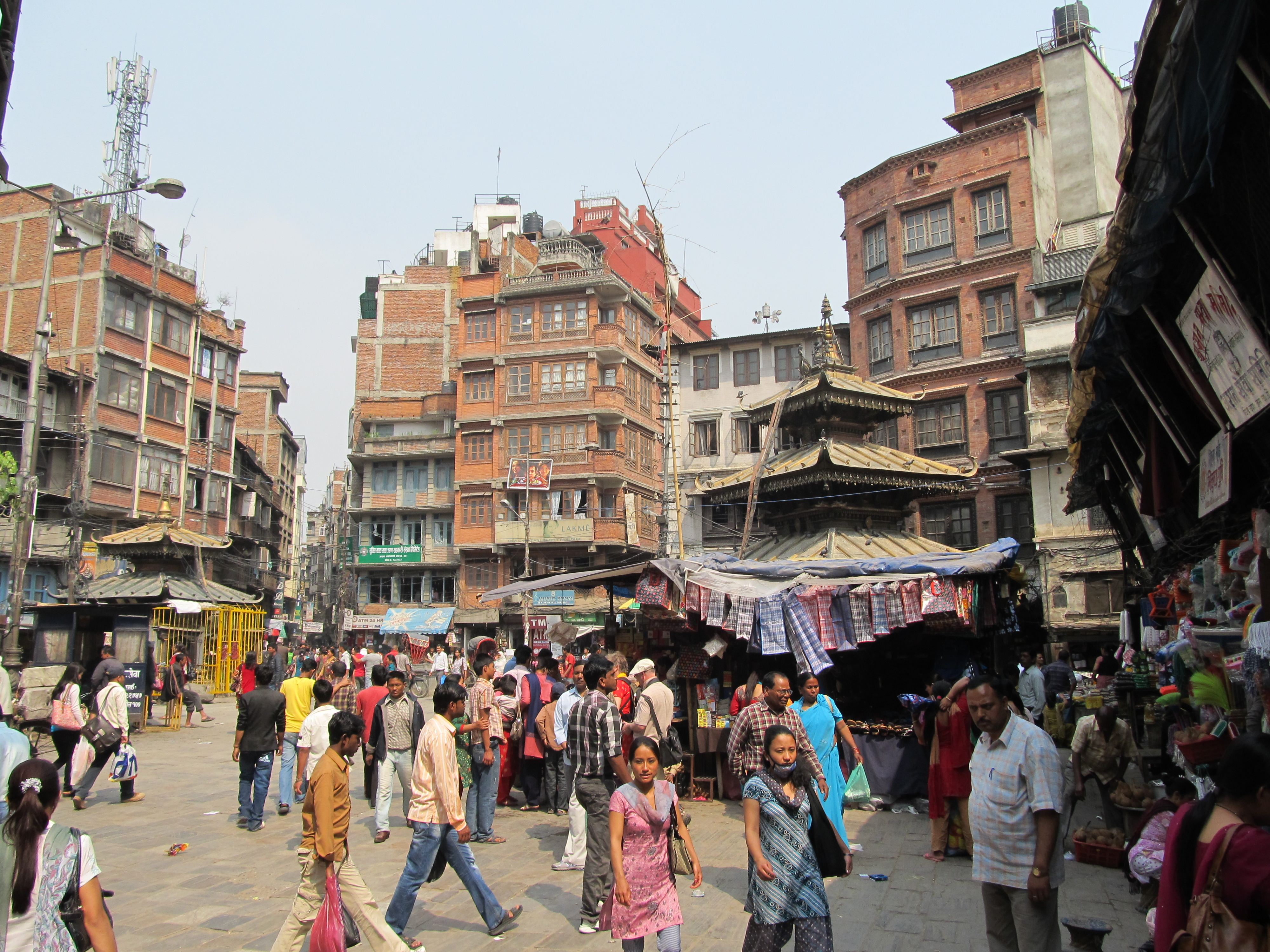 Asan Tole, Annapurna Temple